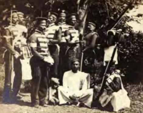 Infantry (Sepoys) of the Hyderabad Contingent (India)